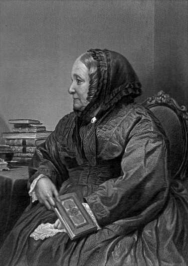 Anna Brownell Jameson (1794-1860)